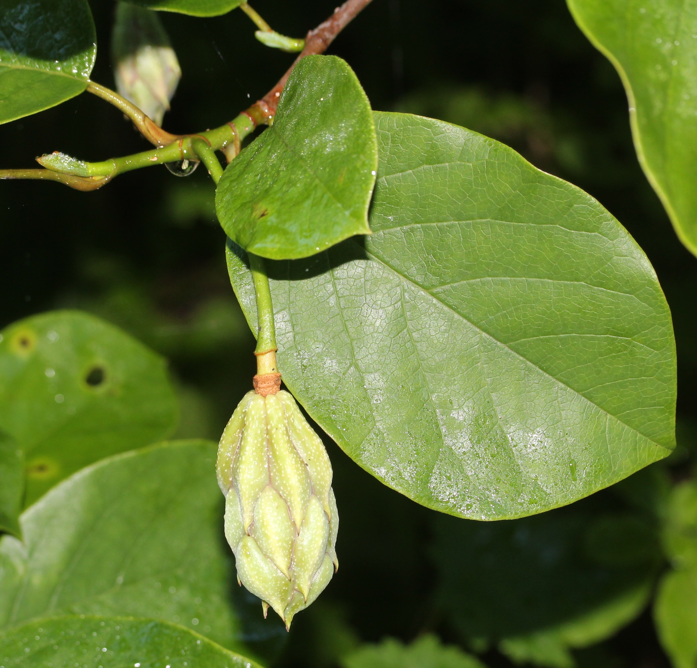 Magnolia sieboldii subsp. japonica in Mount Nakazahi of Hida Mountains, Takayama, Gifu prefecture, Japan.